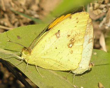 Dry-season brood- Mating Yellow Orange Tips. Photo taken at Chittorgarh Fort, Rajastan